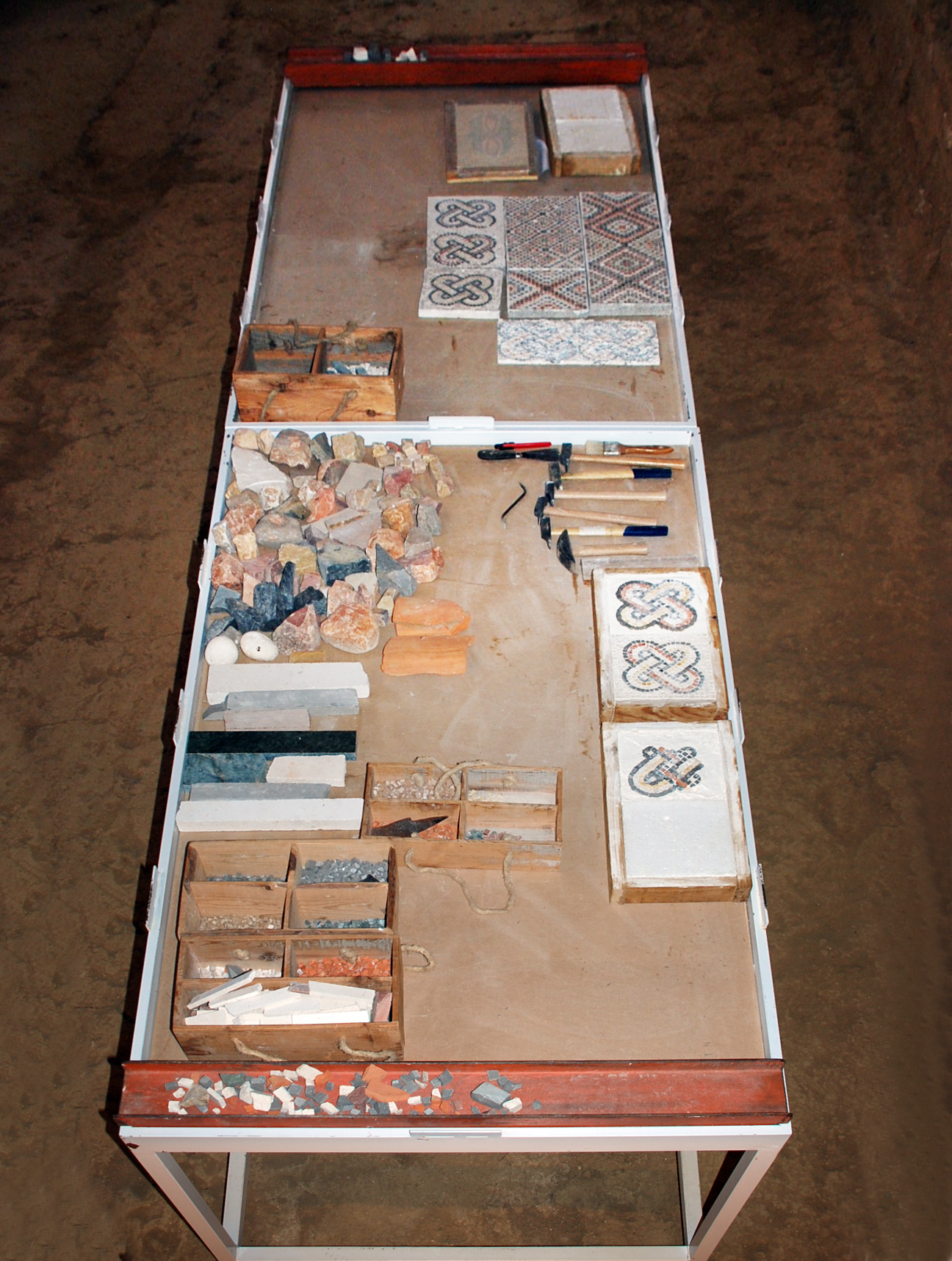 Tool table for ancient roman mosaics at roman villa of La Olmeda in Pedrosa de la Vega (Palencia, Castile and León).